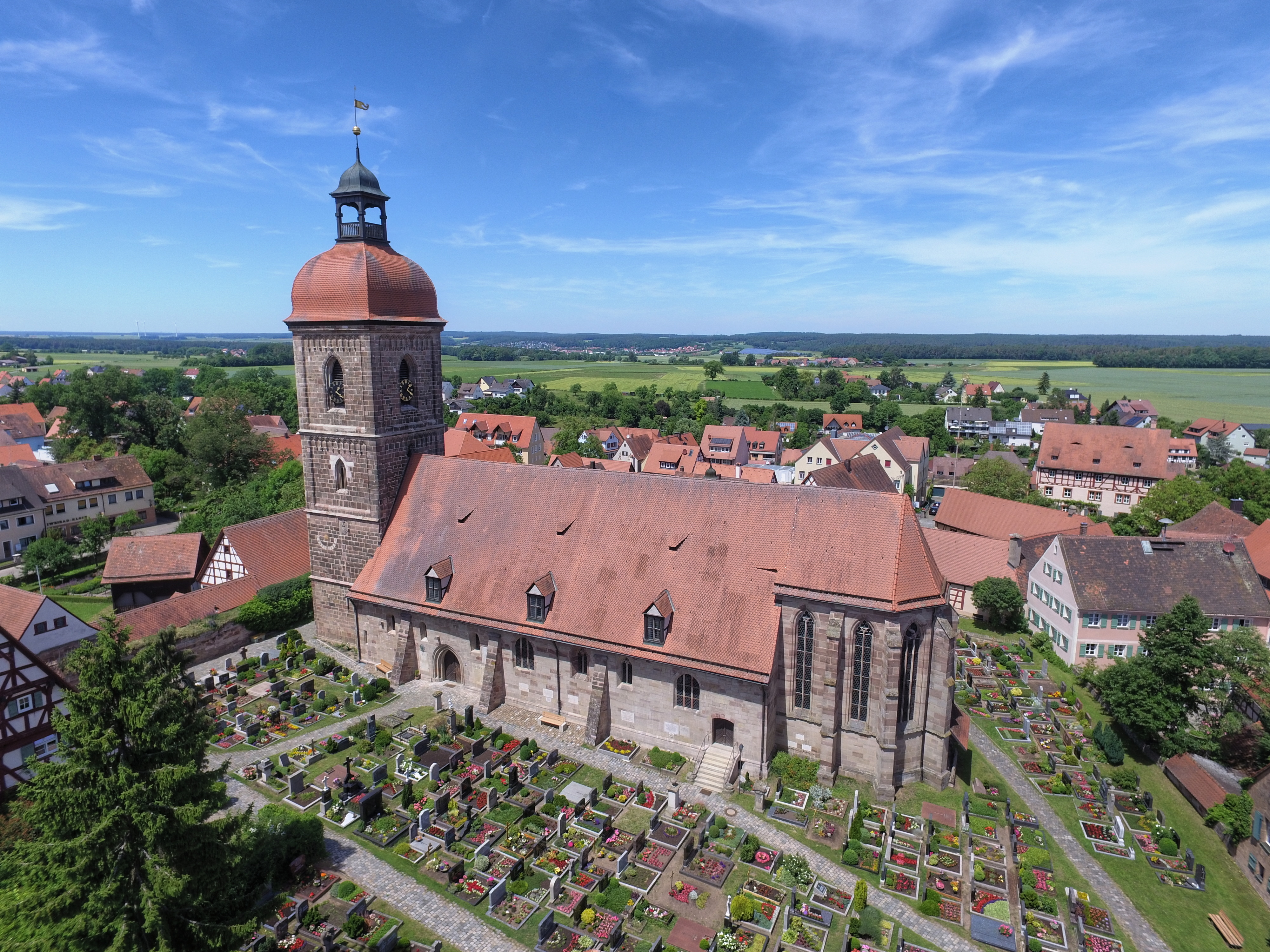 Laurentius Kirche mit Friedhof in Roßtal.